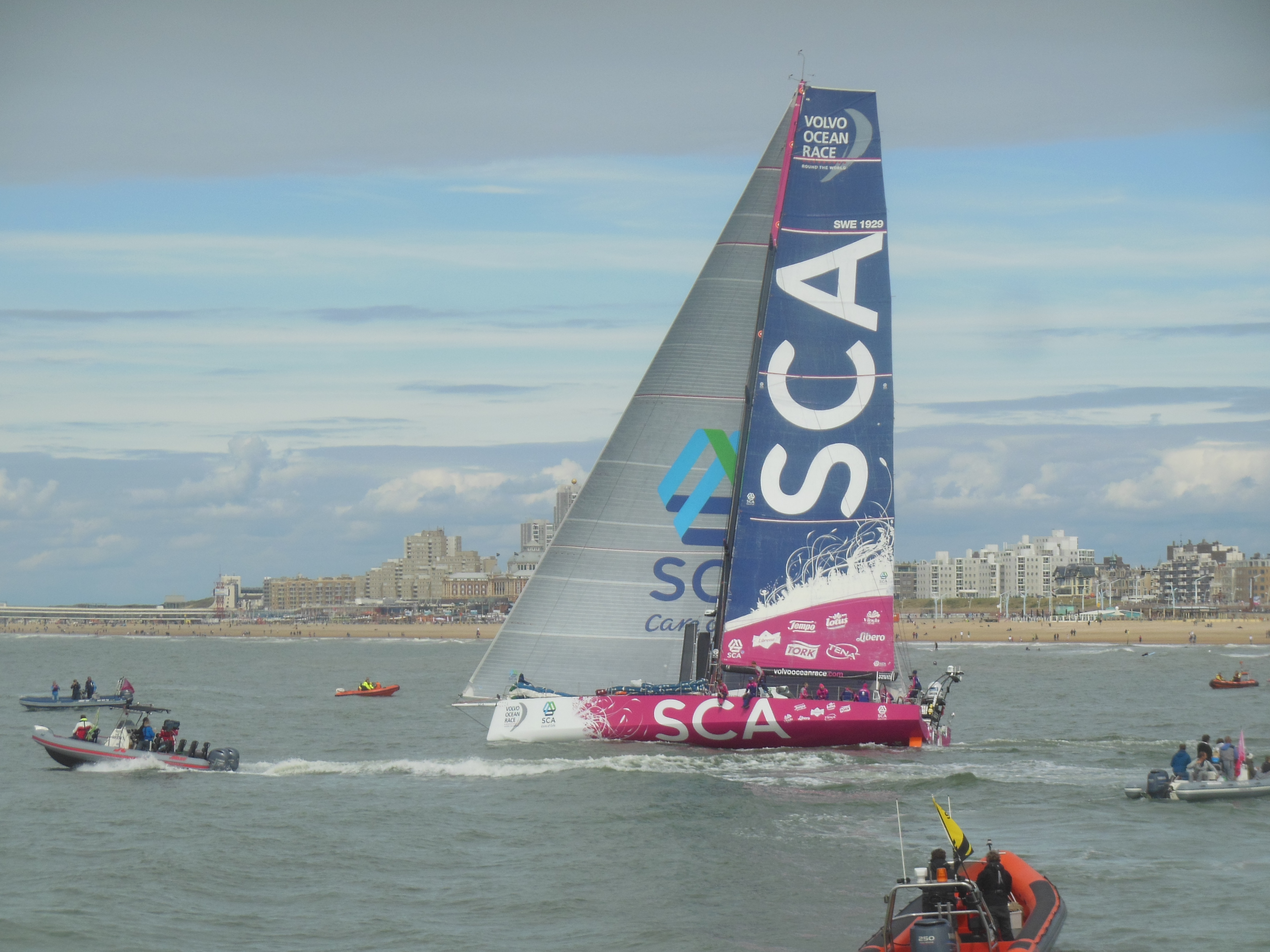 VO65 Team SCA at the re-start after the pitstop in Scheveningen, Volvo Ocean Race 2014-15